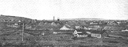 Iron Mountain MI, looking toward the Chapin Mine, c 1909